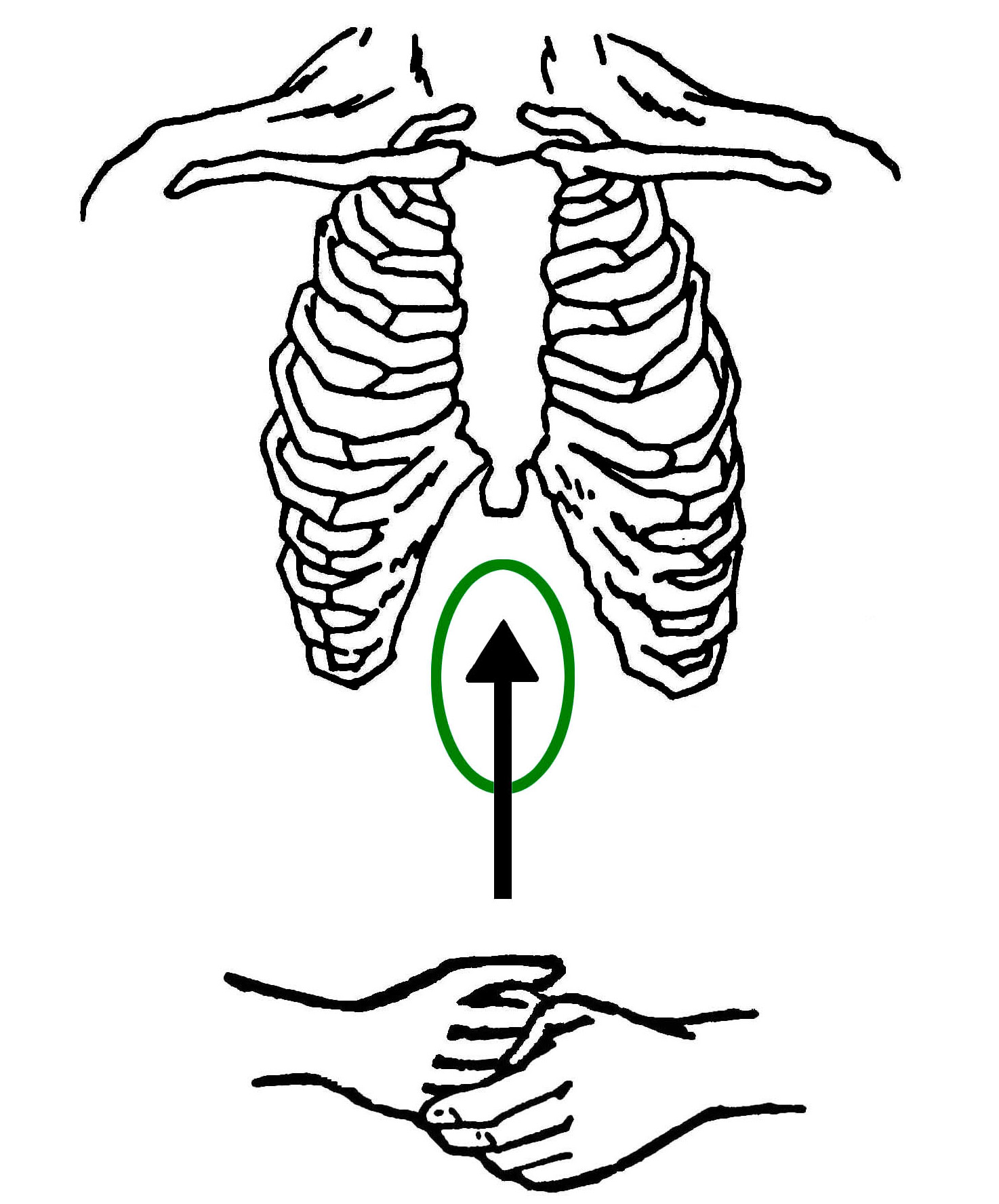 Abdominal thrusts (Heimlich maneuver) must be applied on the area located between the chest and the belly button. If the belly presents problems, use chest thrusts instead.